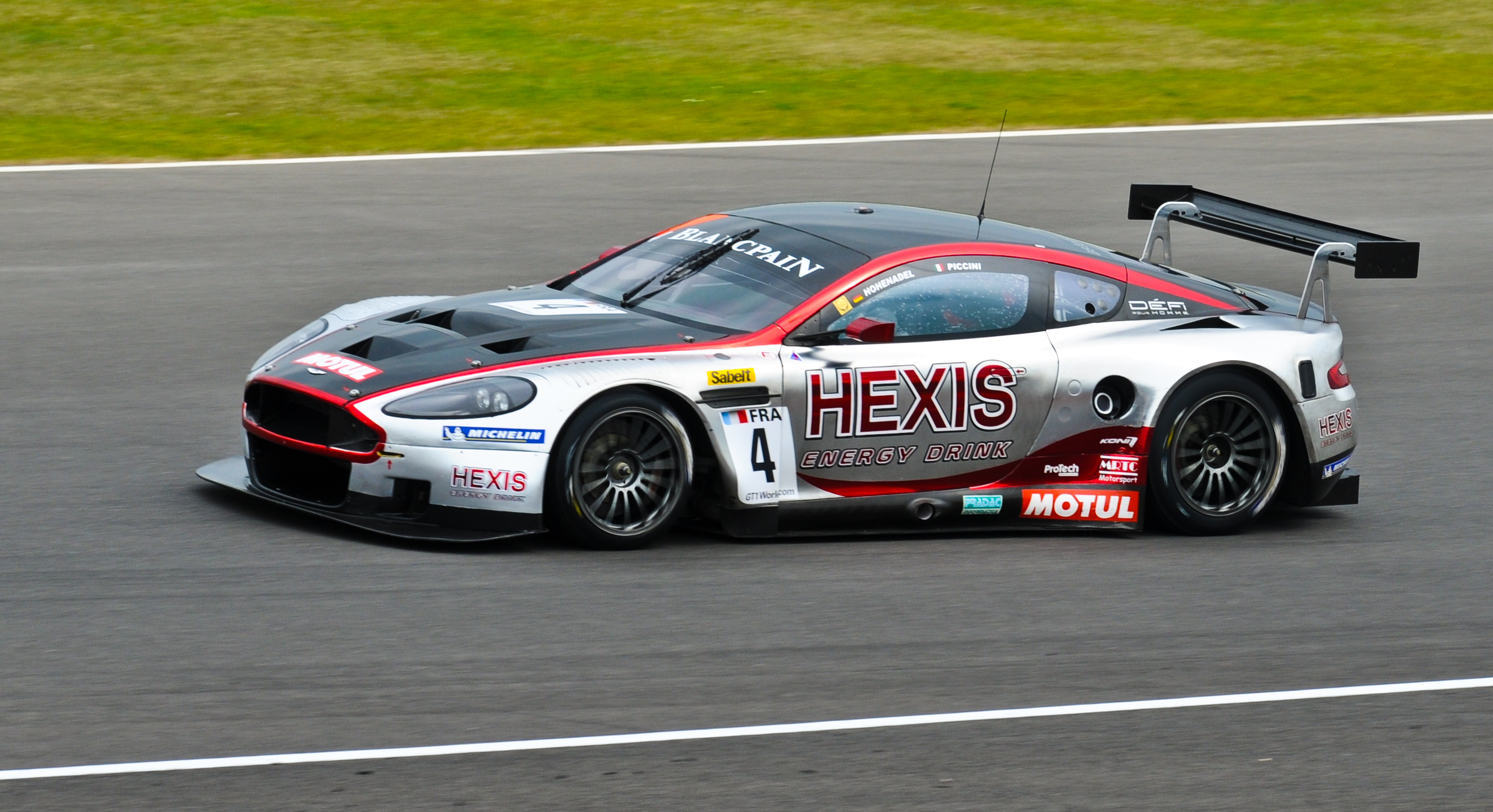 2011 FIA GT1 Silverstone round